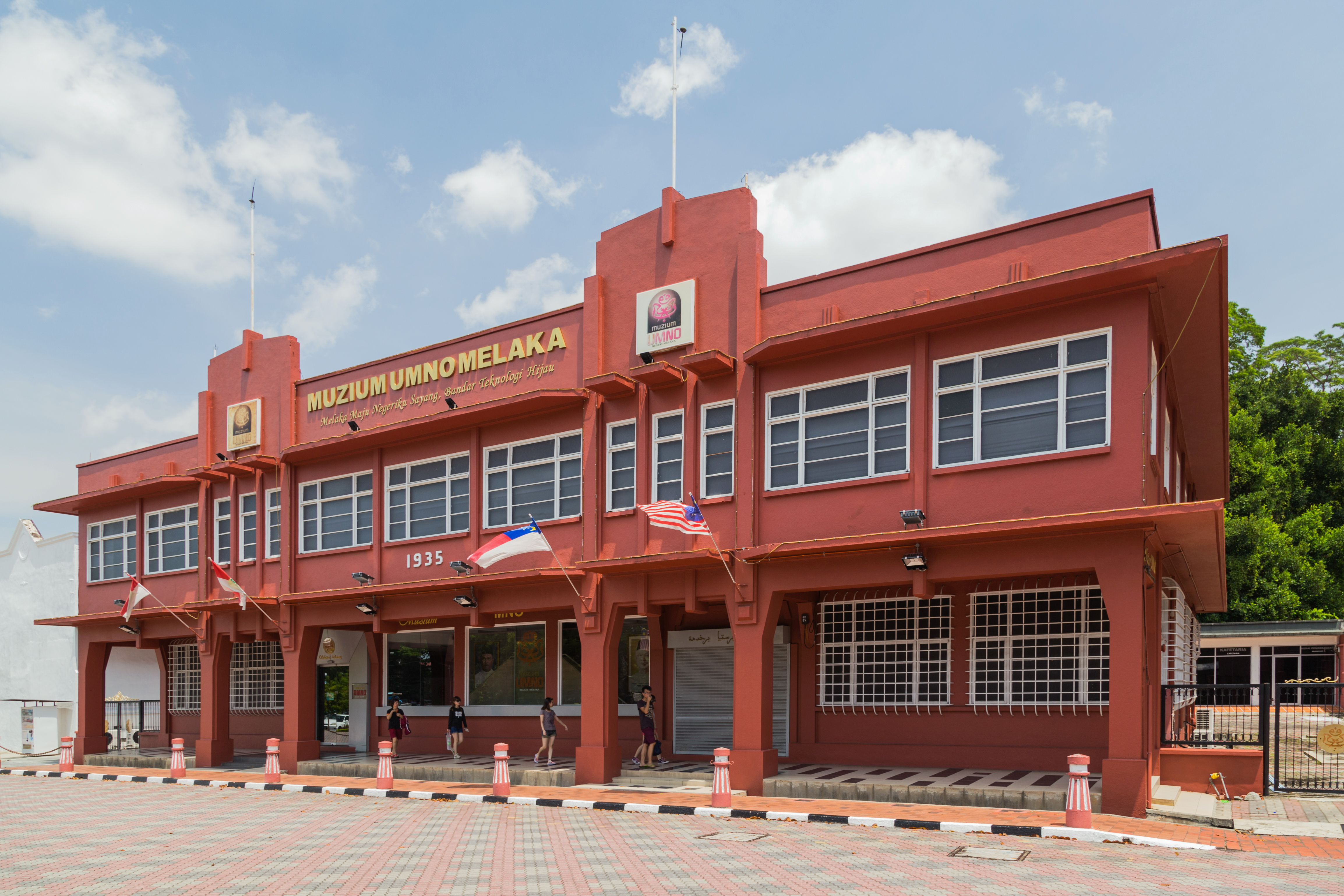 Malacca UMNO Museum. Malacca City, Malacca, Malaysia.